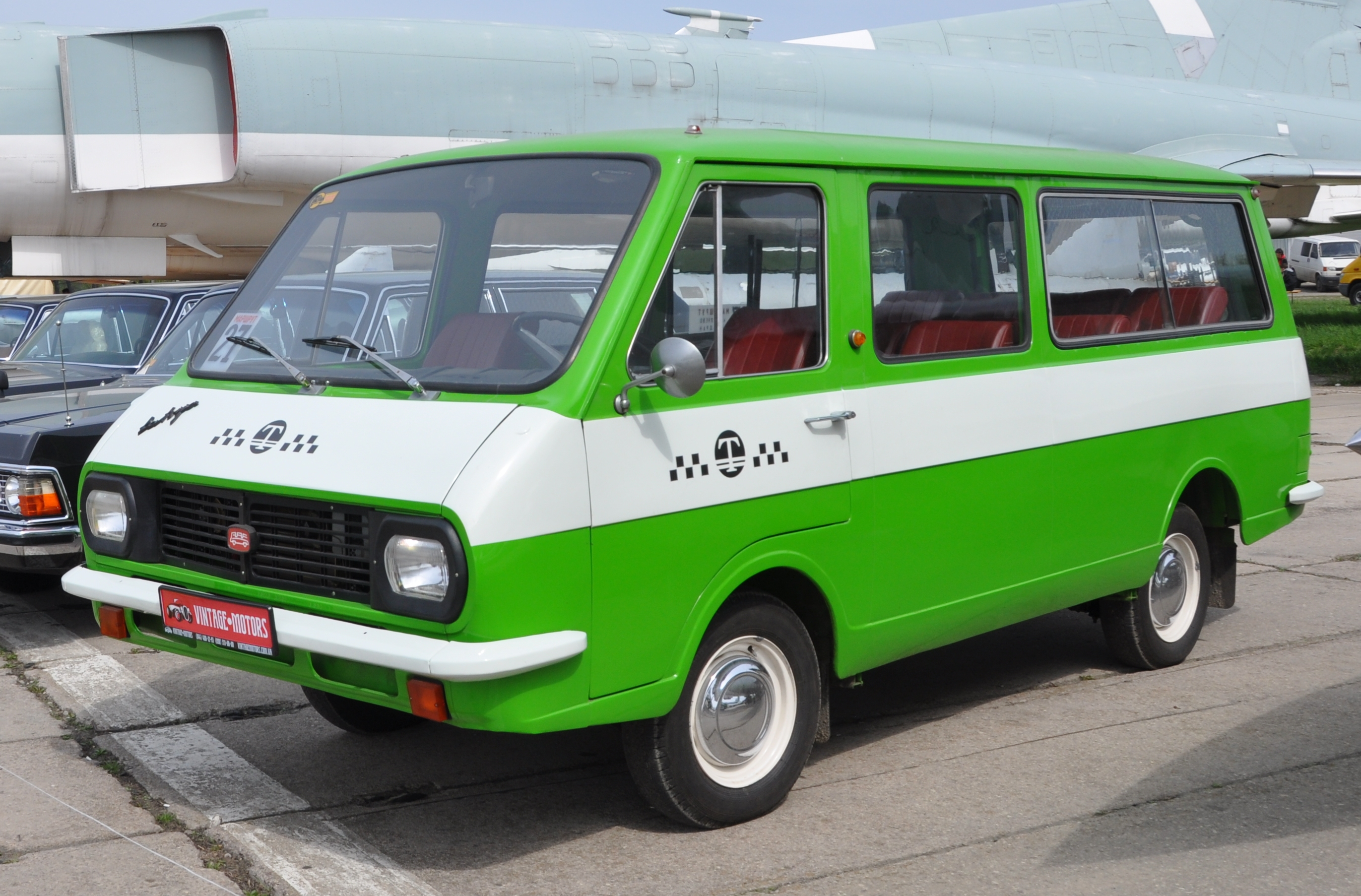 RAF-2203 VintageMotors